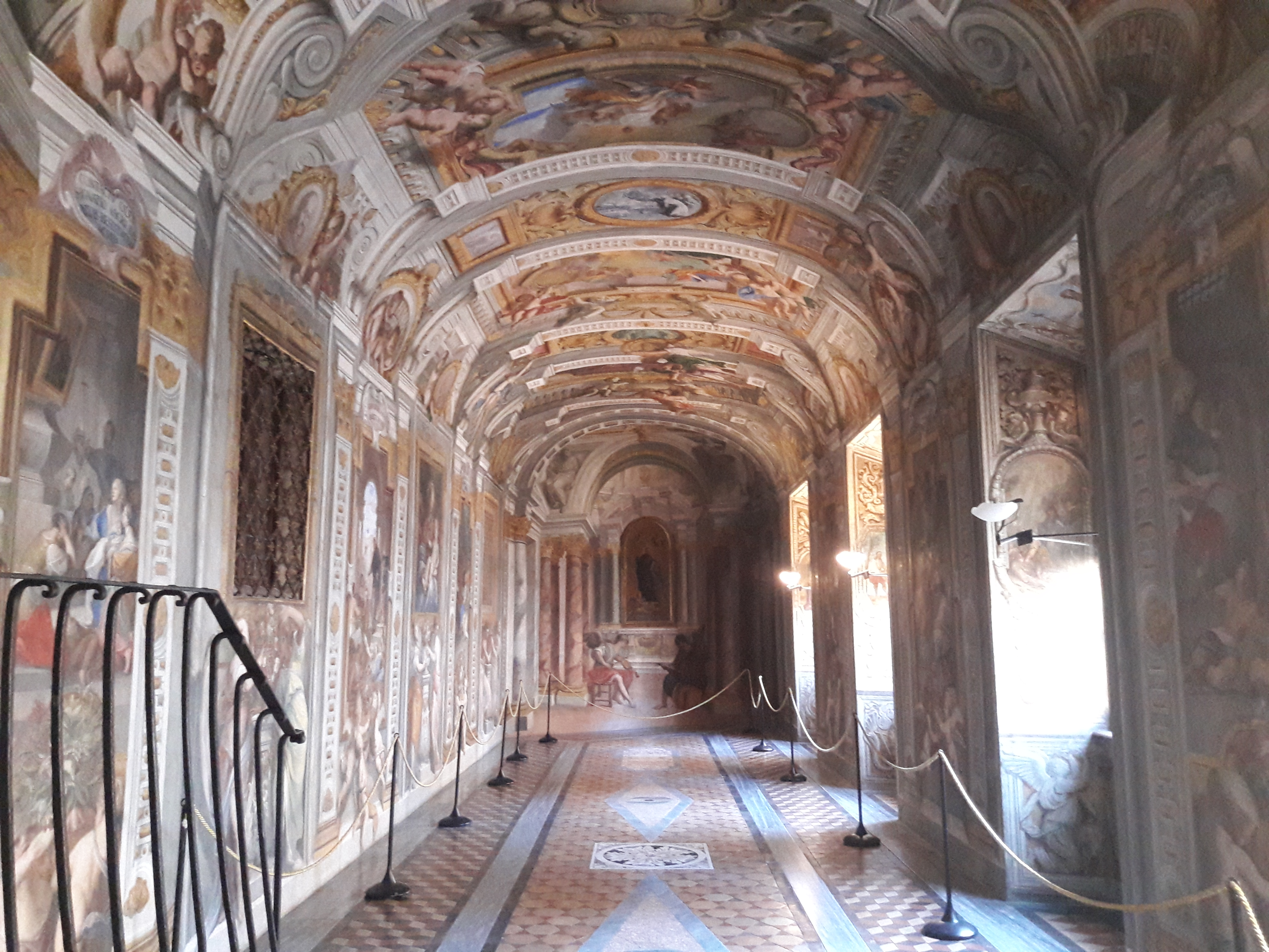 Gesu Church, corridor to St Ignatius' rooms, Rome